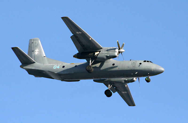 Lithuanian Air Force transport aircraft Antonov AN-26 (retired).